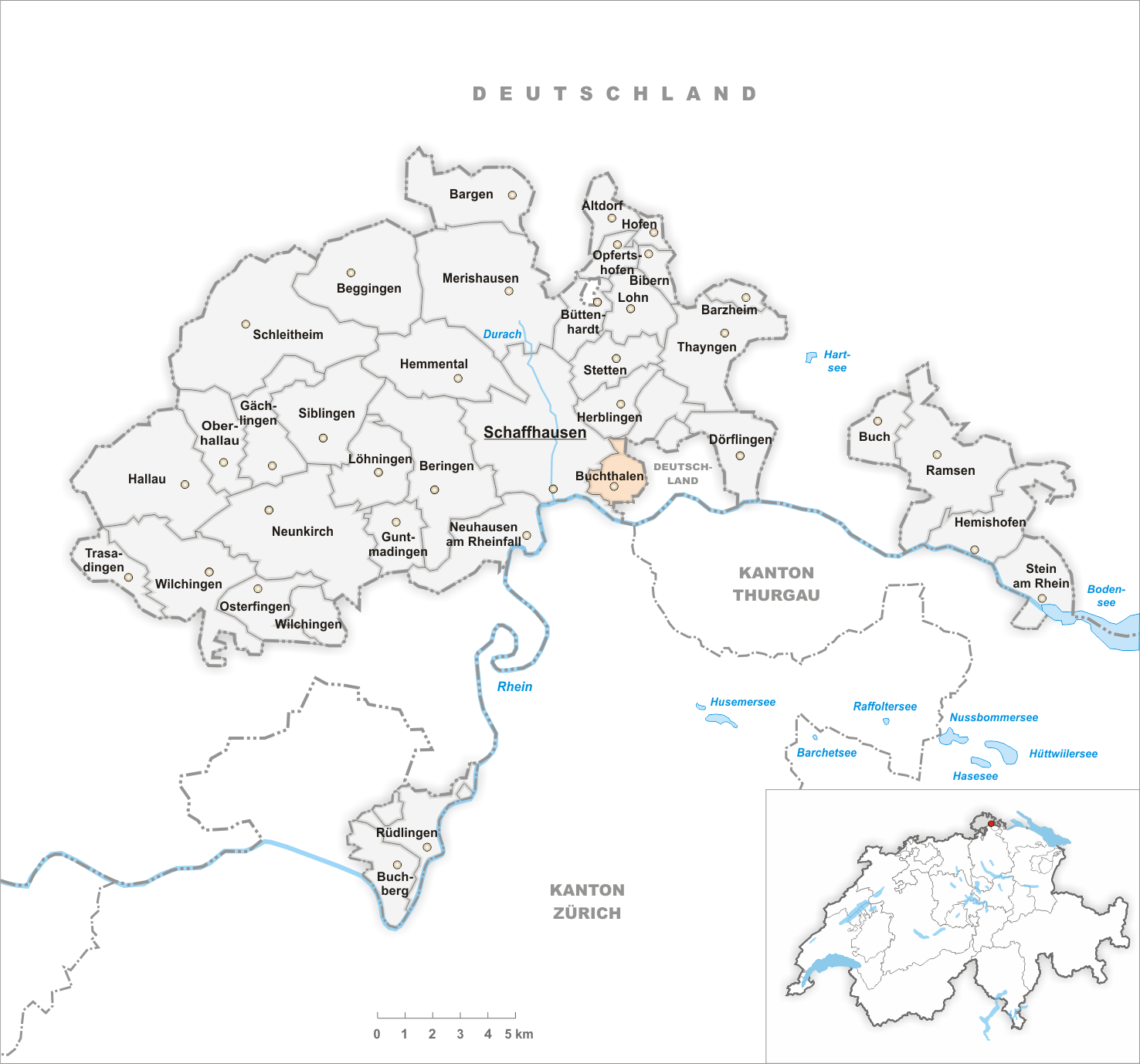 Municipality Buchthalen Artist: Tschubby